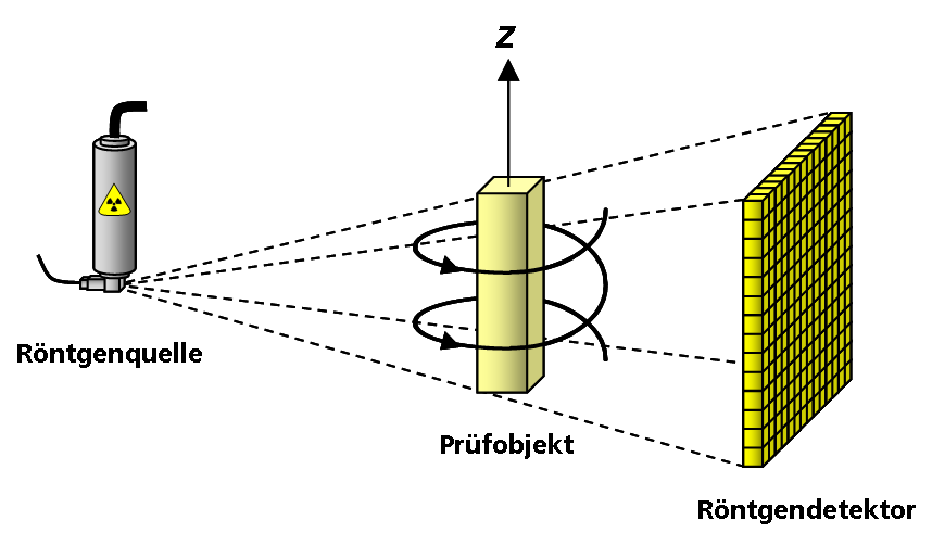 Schematic representation of an industrial Helical CT setup.